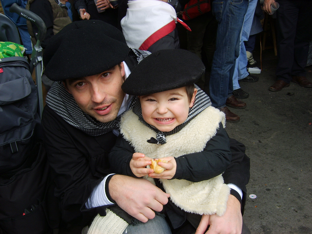 Child with typical basque clothes in Santo Tomas festival.